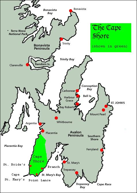 A modified map of Newfoundland's Avalon Peninsula, from a map already on wikimedia commons that is freely available to modify and edit.